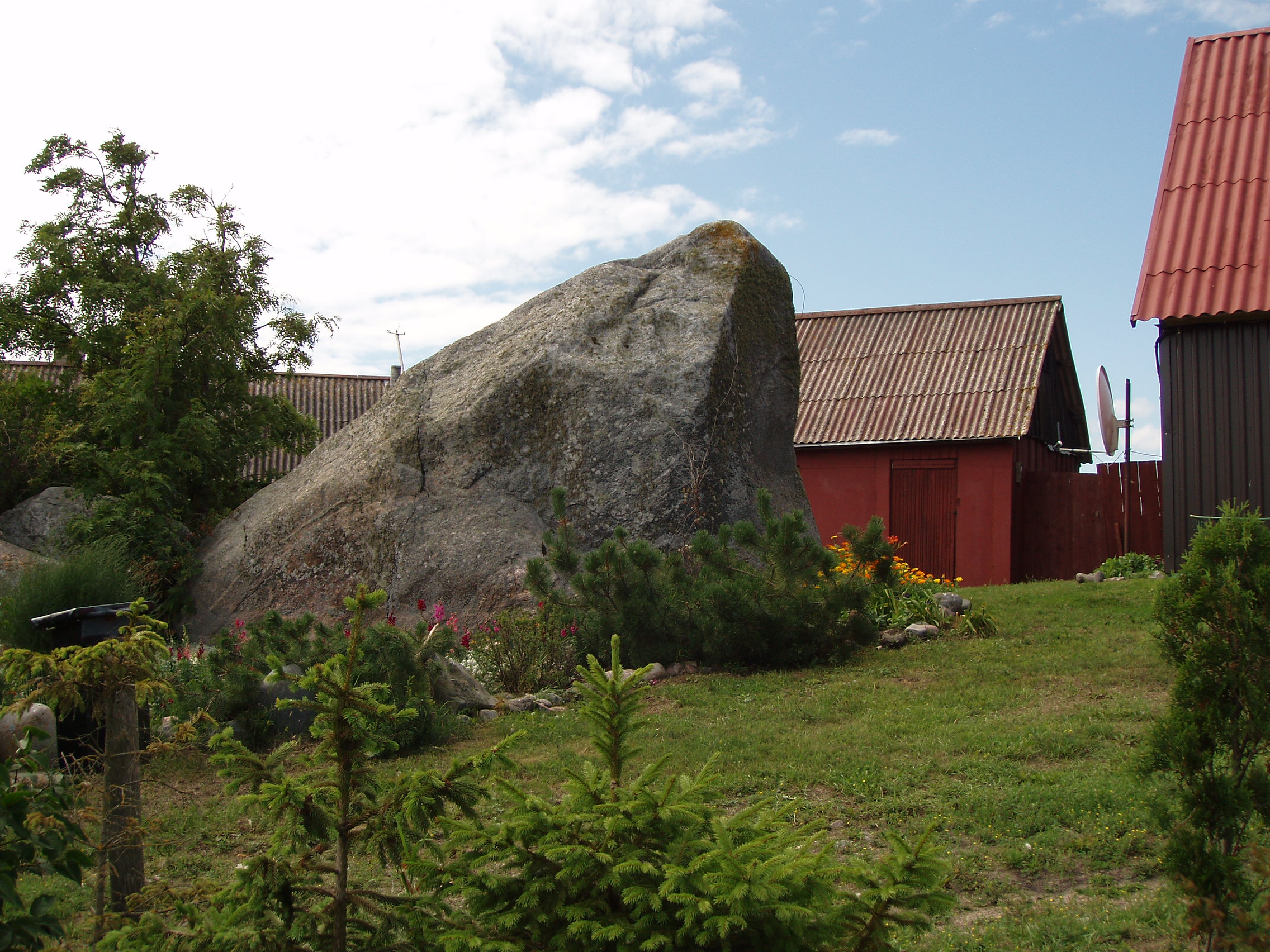 Kokkõkivi (Kotkakivi 'Eagle's rock') at Manilaid.